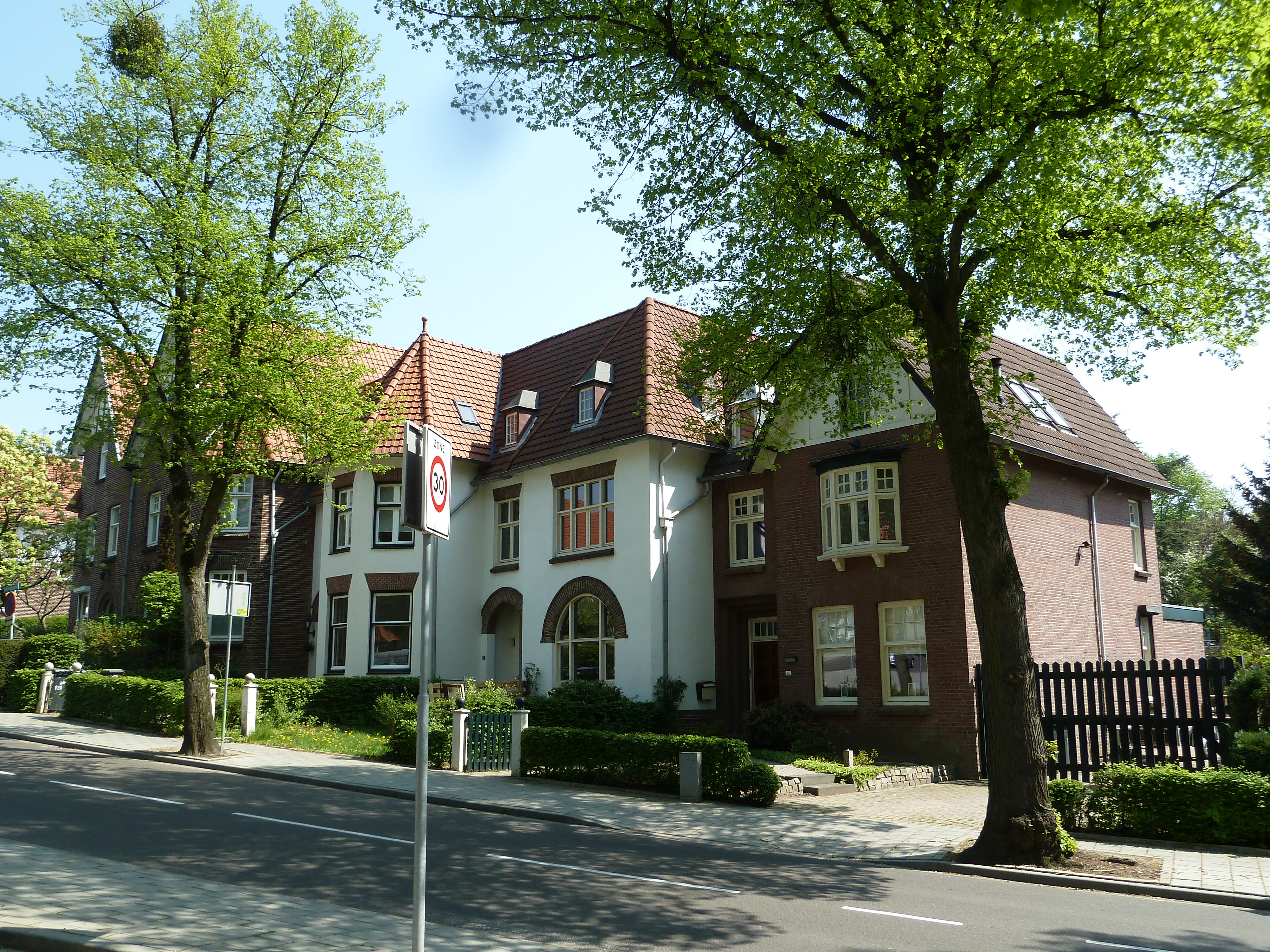 Molenberglaan 116-124, Heerlen, Limburg, the Netherlands